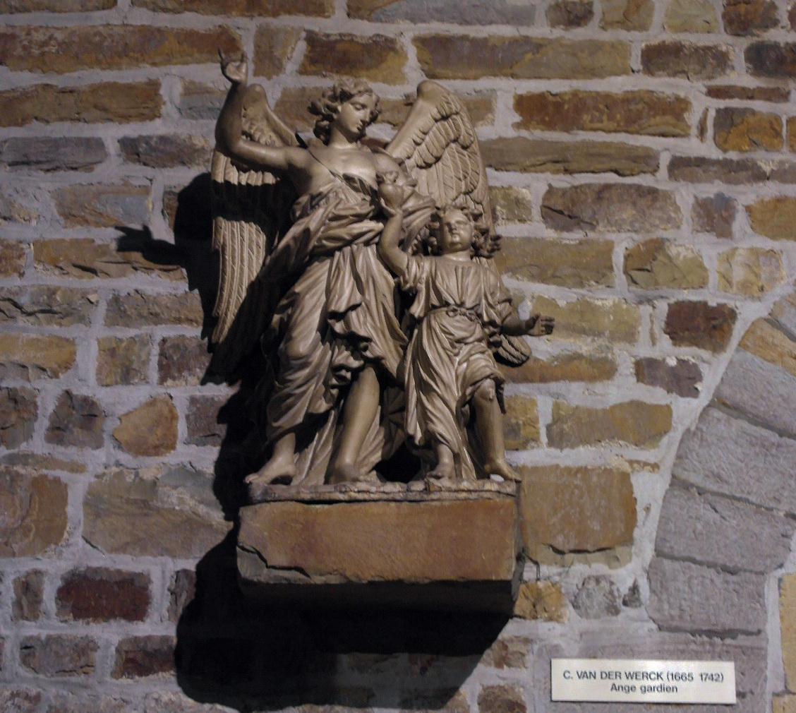 Statue of a child and his Guardian Angel by Cornélis Vander Veeken (1666-1740) in the Church of Saint Denis in Liège, Belgium.